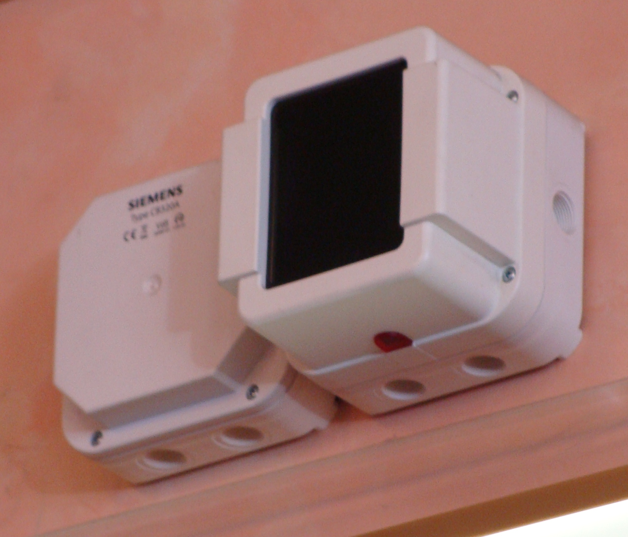 Optical Beam Smoke Detectors